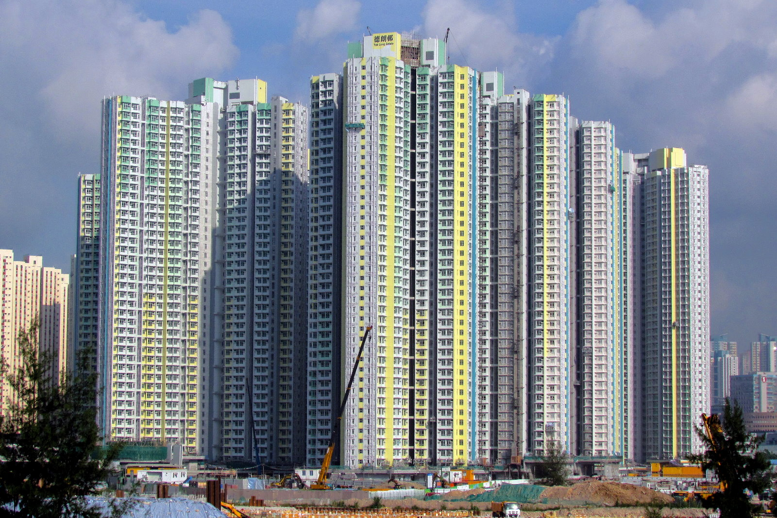 Kai Tak Tak Long Estate, Hong Kong